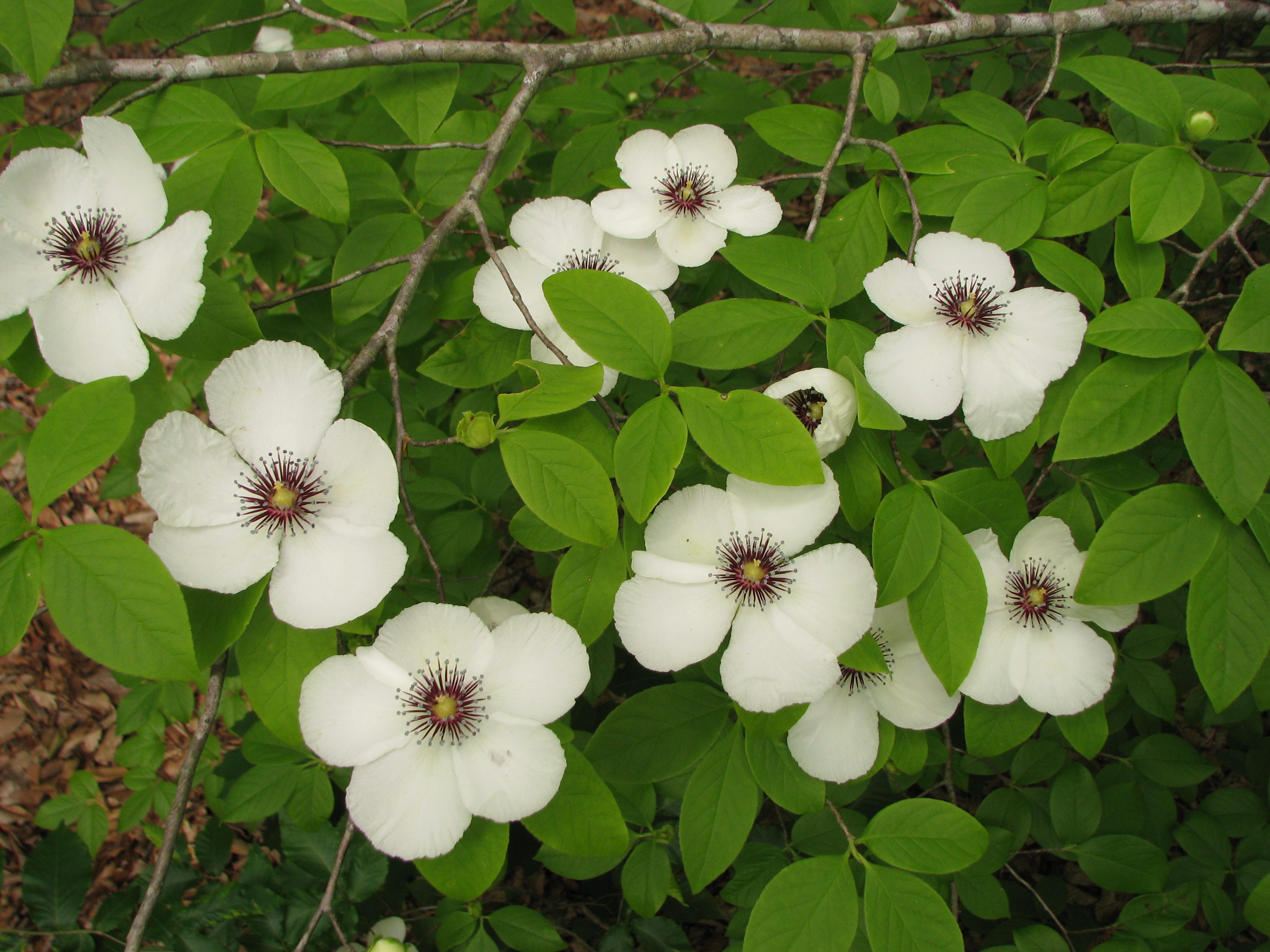 Blooming prolific near my campsite, this is the first time I ever found it. Normally found at higher elevations, there are pockets of it in lowlands; specifically the Williamsburg VA / NC border area. I actually get excited about finds like this!